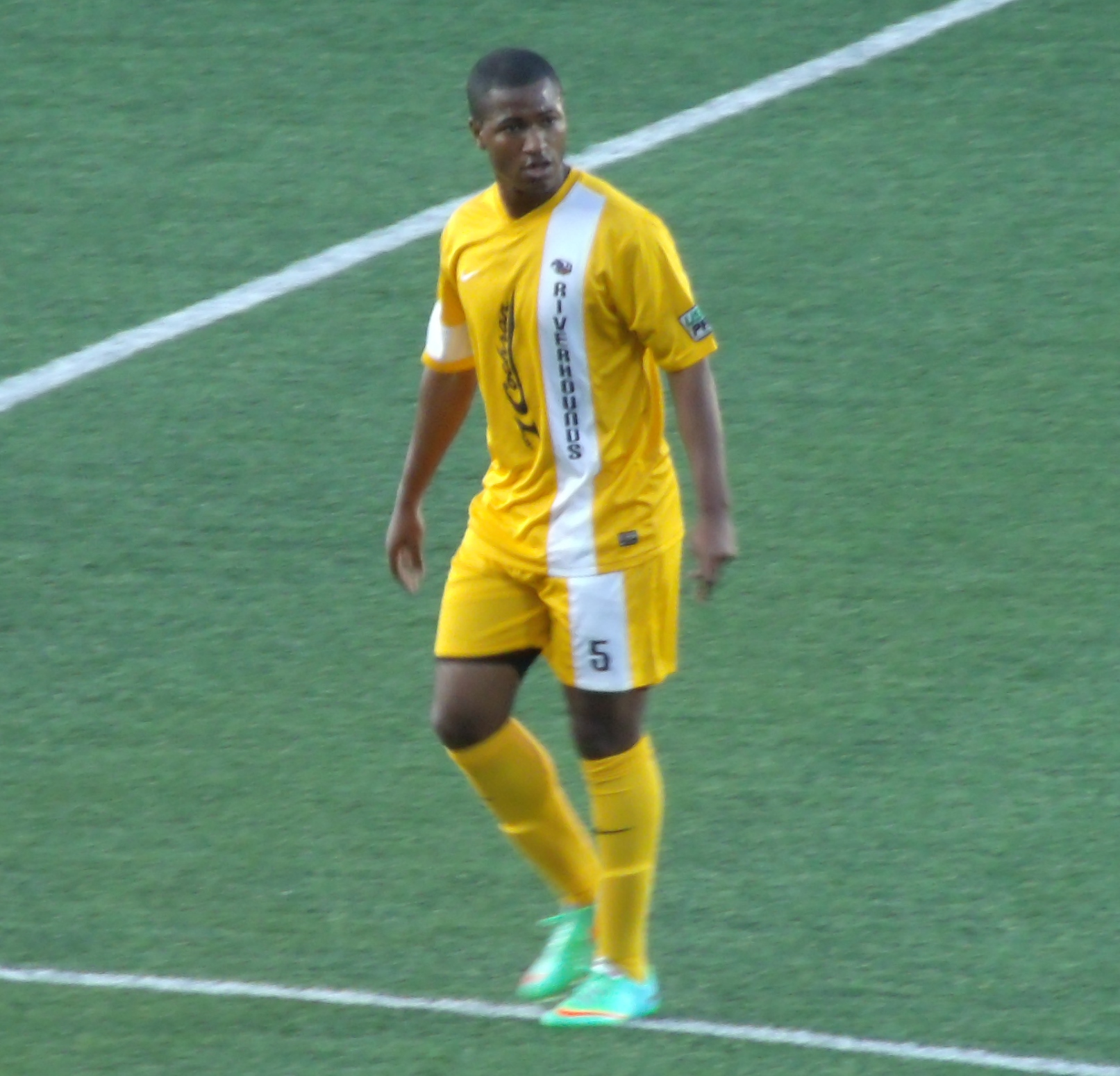 Pittsburgh Riverhounds vs. Wilmington Hammerheads 4/12/14